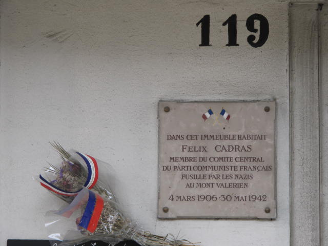 Plaque in memory of Félix Cadras, communiste shot by the nazis. 119 boulevard Davout, Paris 20th arr.